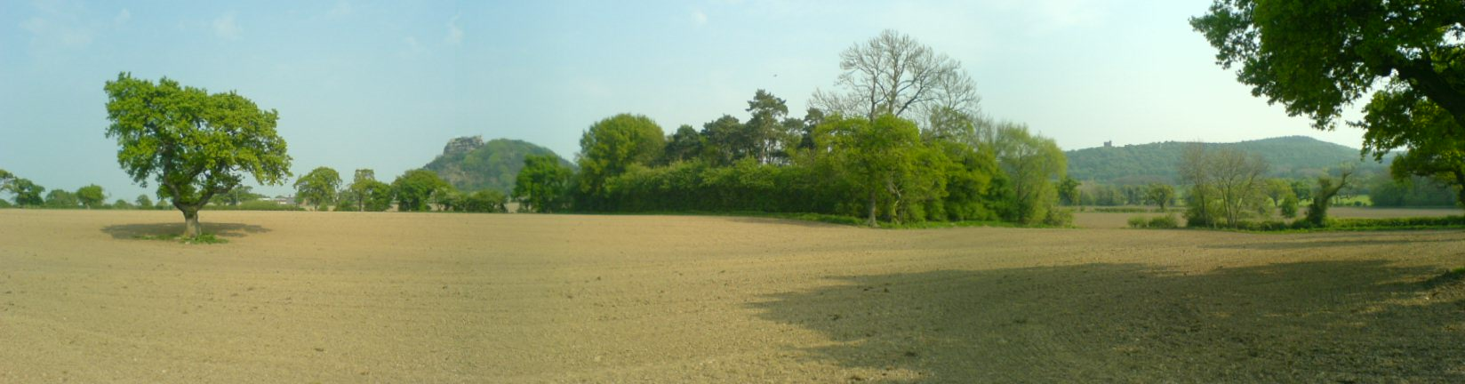 Panorama of the Cheshire Plain – taken from Mid-Cheshire Ridge.